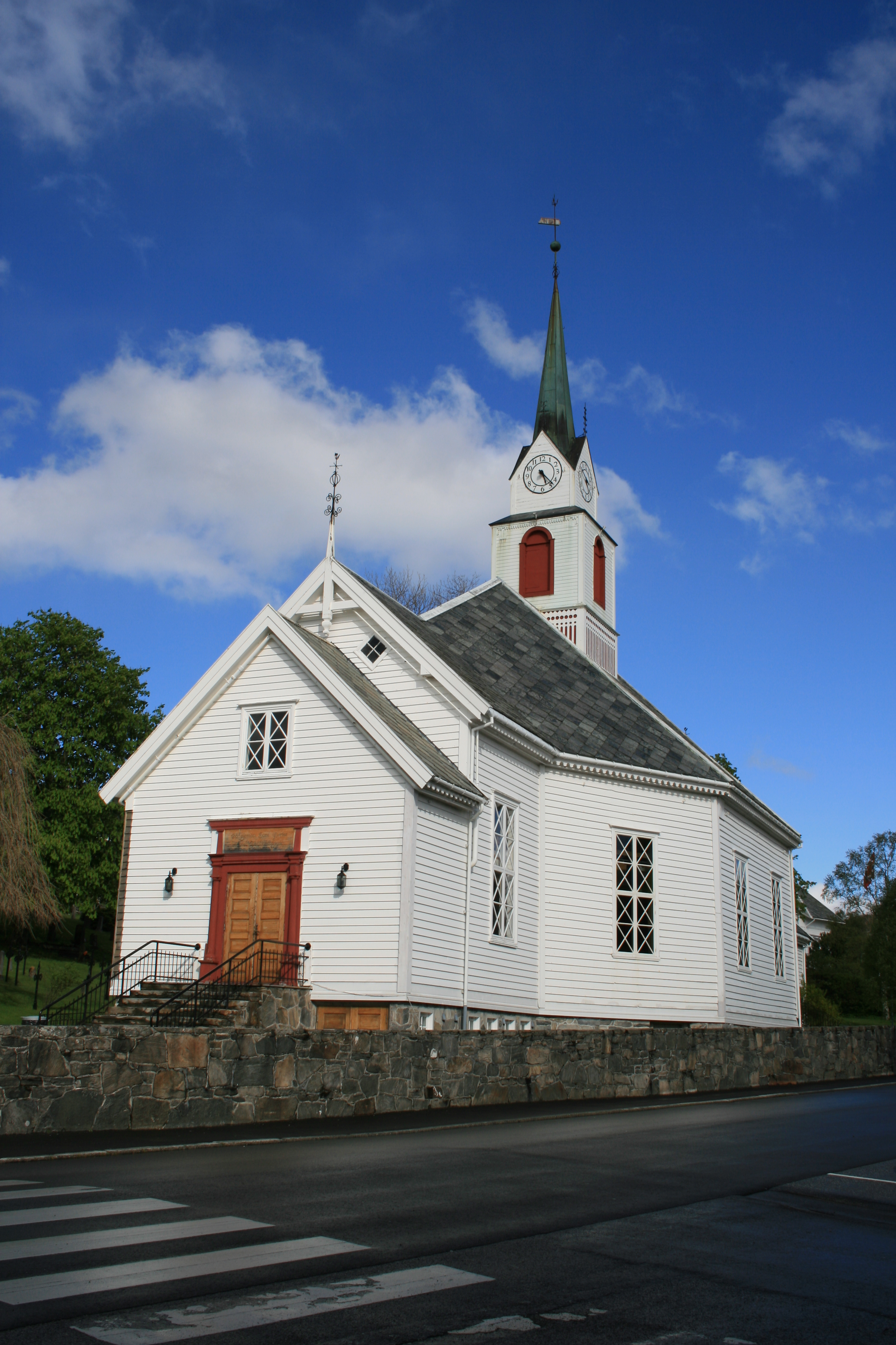 Ulstein church, Ulsteinvik, Ulstein kommune, Møre og Romsdal, Norway